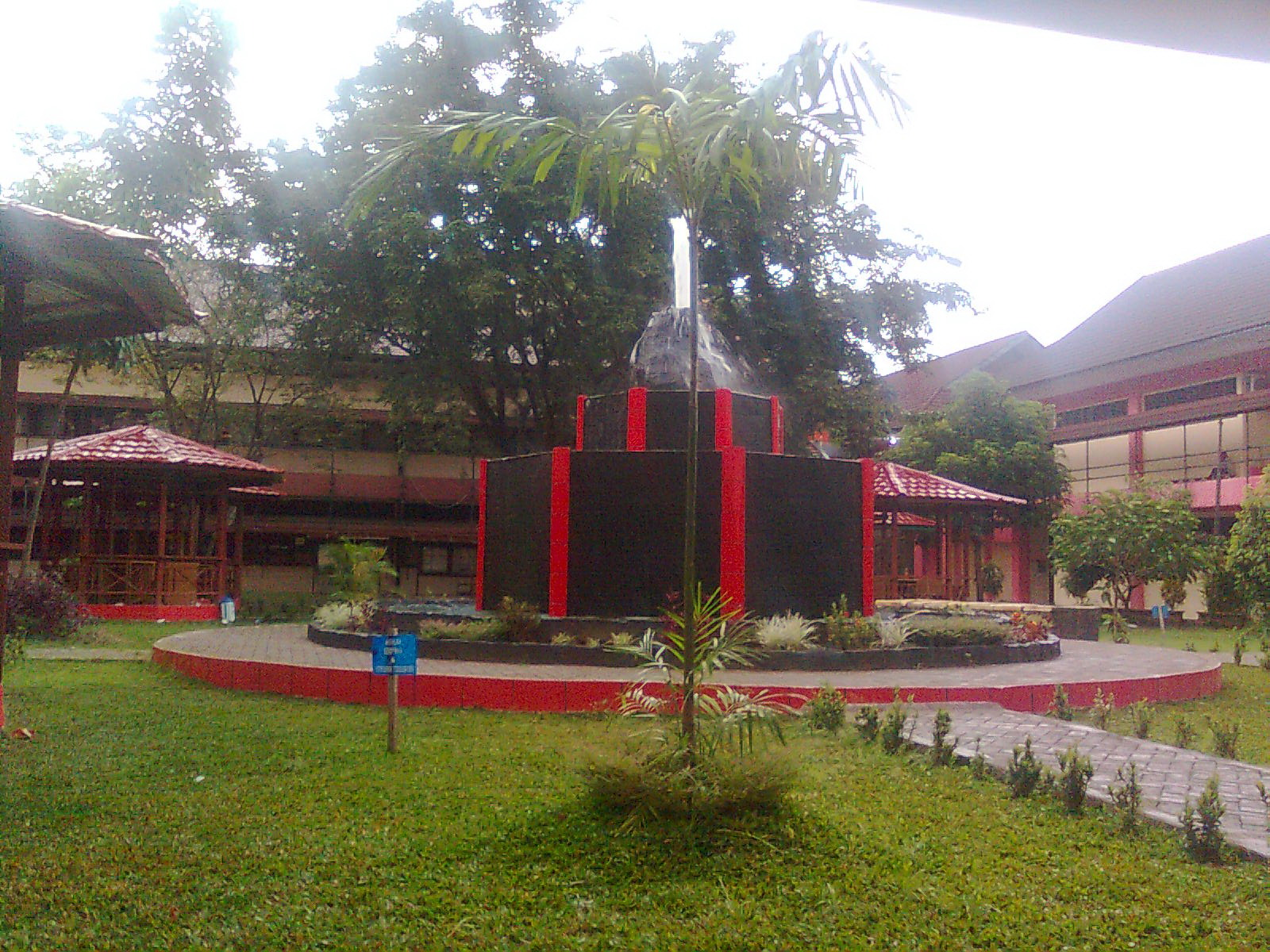 Sarana di Fakultas Hukum UNHAS Licensing User:Anhar Karim, the copyright holder of this work, hereby publishes it under the following license: Attribution: User:Anhar Karim